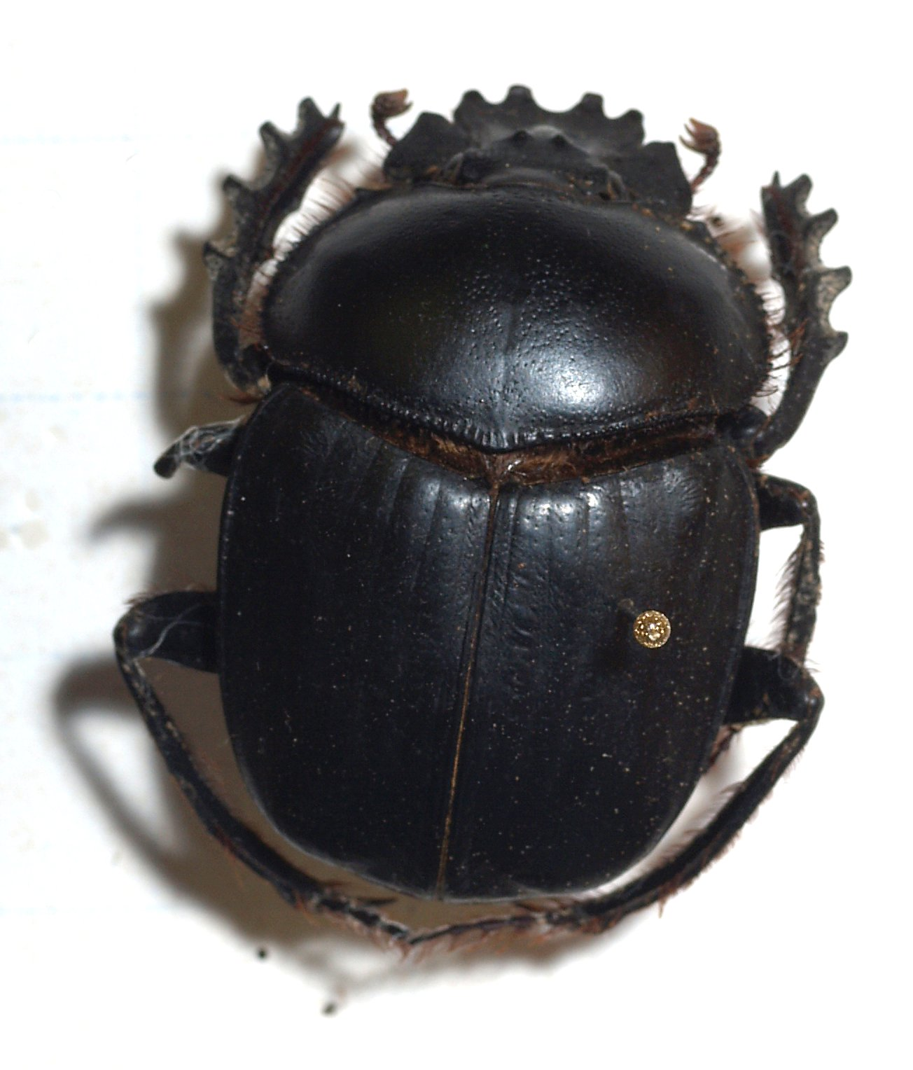 Scarabaeus sacer, secured to display surface with a pin